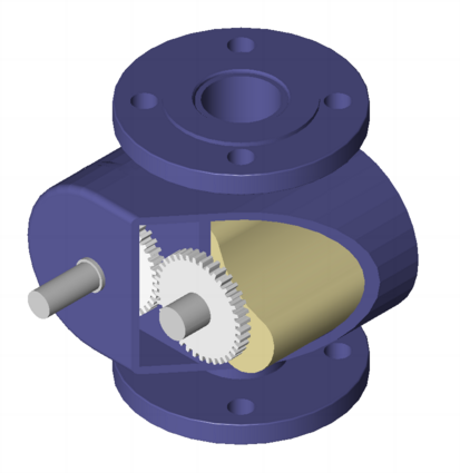 Schematic view of an open lobe compressor (drive side) Author : R. Castelnuovo (myself) 2005 10 20